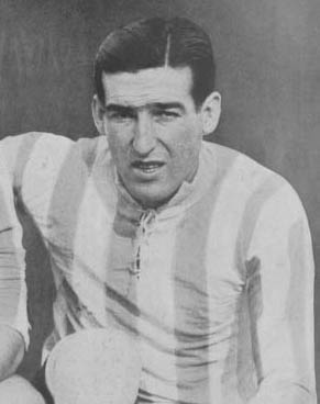 Left winger Cesáreo Onzari in 1929 with the Argentina national team.